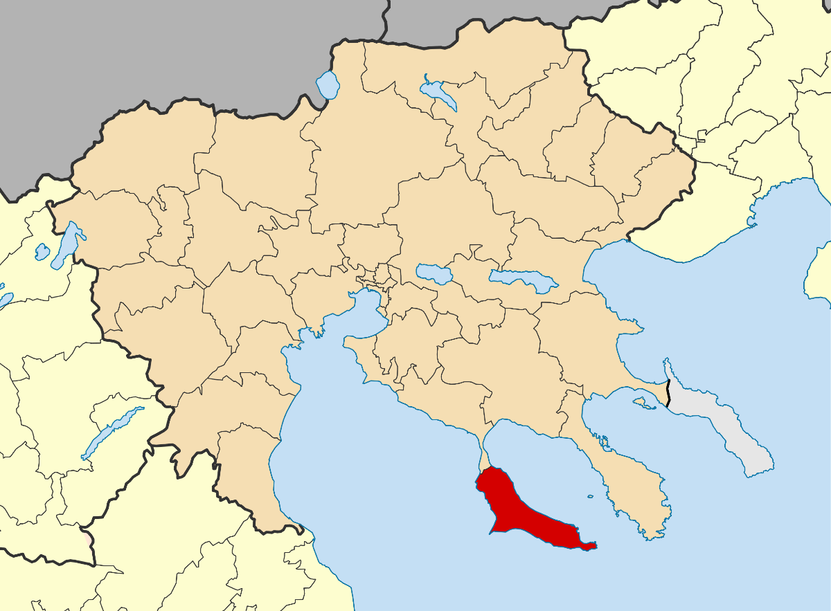 Locator map for Kassandra municipality in Greek region Central Macedonia (2011)